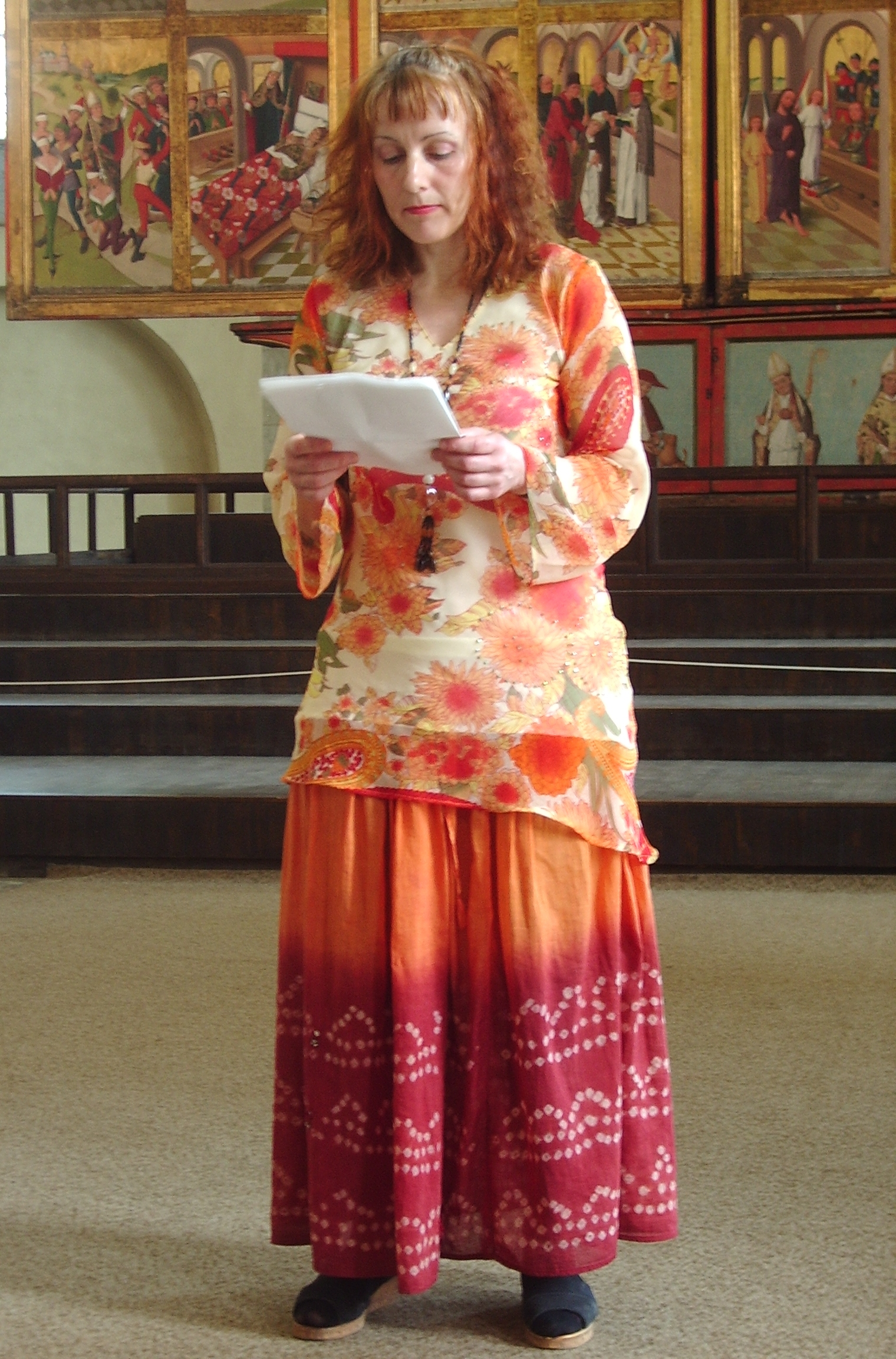 Aime Hansen (born 1962) is an Estonian poet. Reading her poems in Niguliste church during Tallinn Literature Festival.